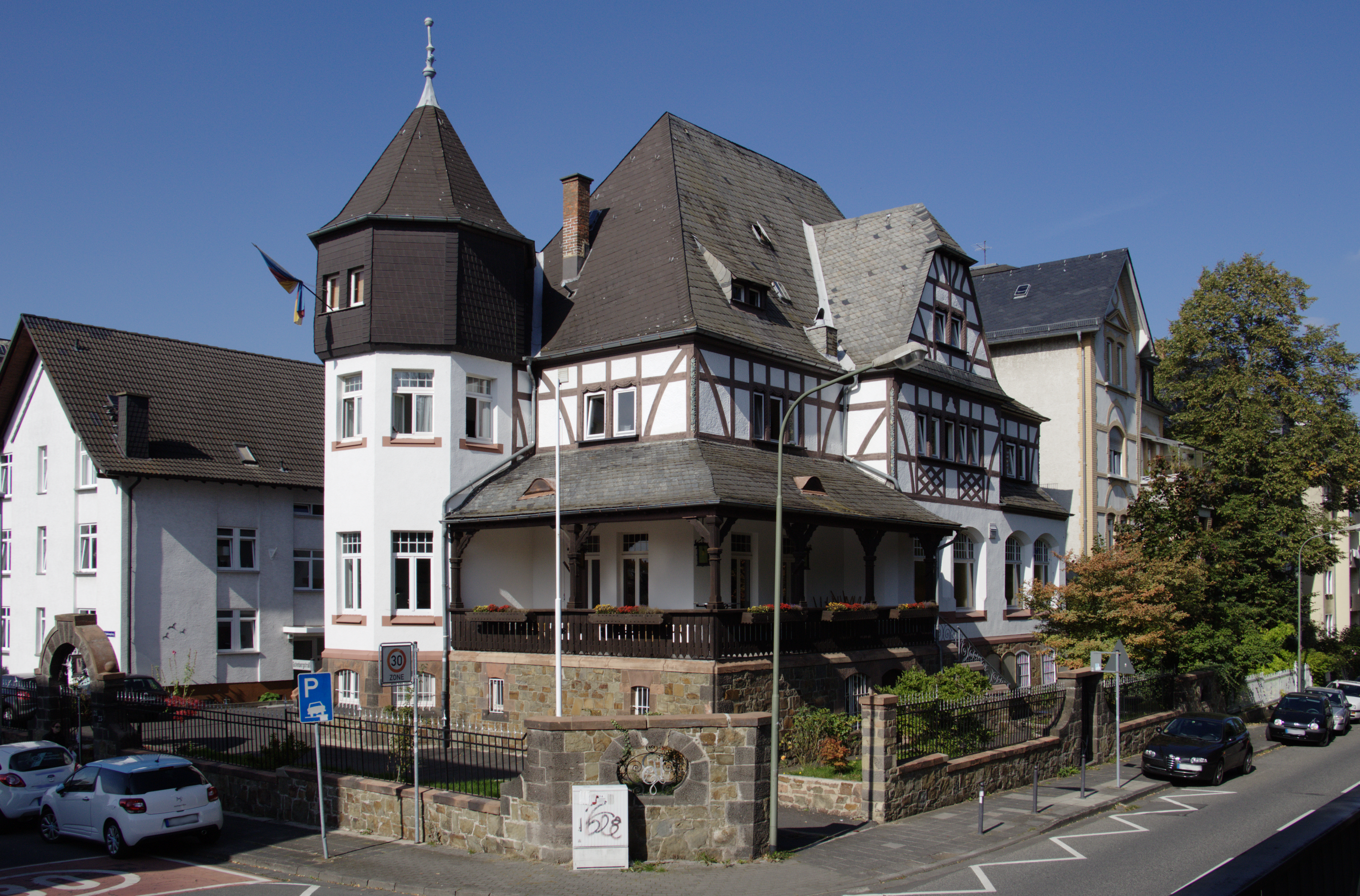 Building in Giessen Gutenbergstrasse 23 / Hesse / Germany